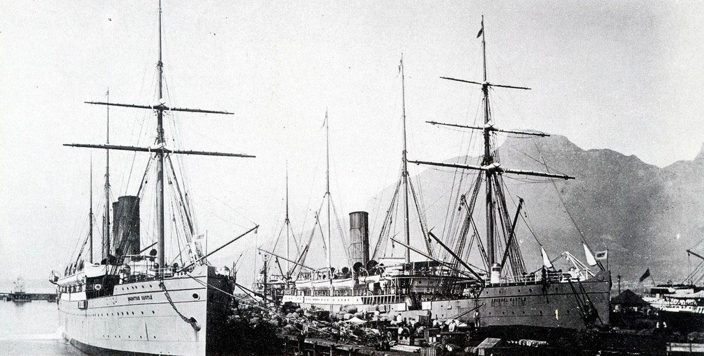 Cape Town harbour with Union-Castle liners. Cape Colony archives.